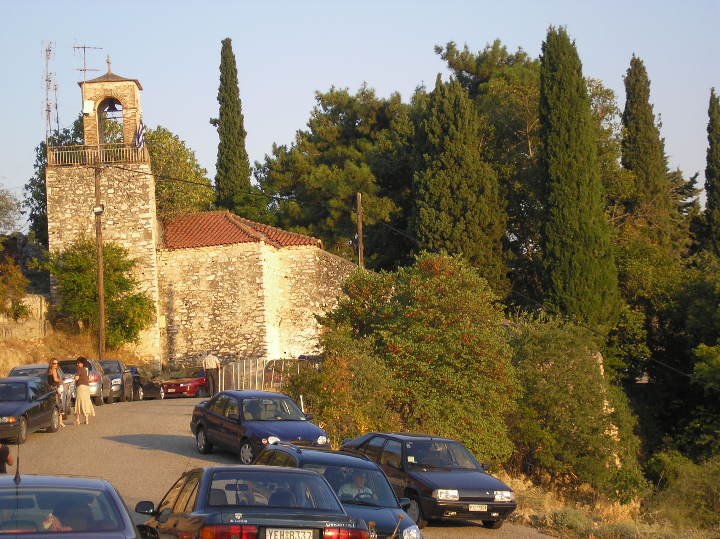 St. Dimitrios Monastery on the 15th of August, Grizano, Farkadona, Greece.